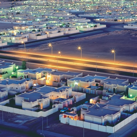 Modern Houn City "Suzai neighborhood"